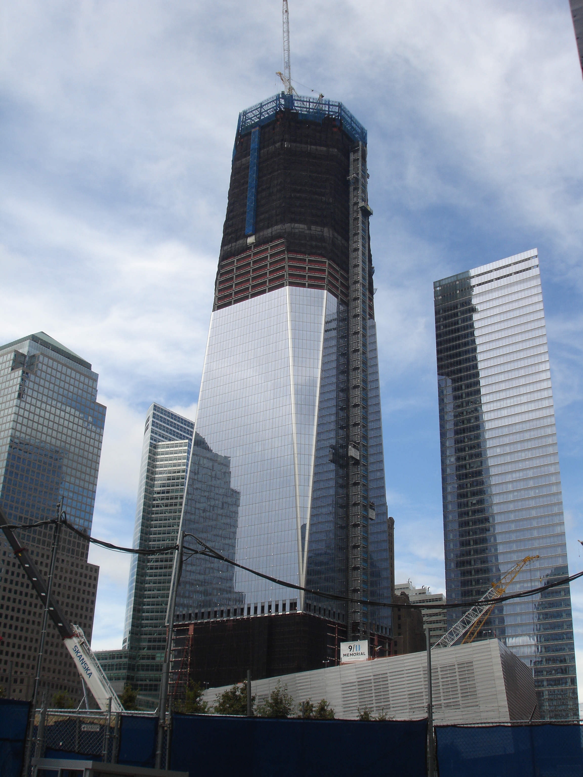 They're saying they want people to call it 1 World Trade Center--and that it has nothing to do with the fact that the main tenant so far is a company associated with the Chinese government. This is roughly half as tall as it's going to be.